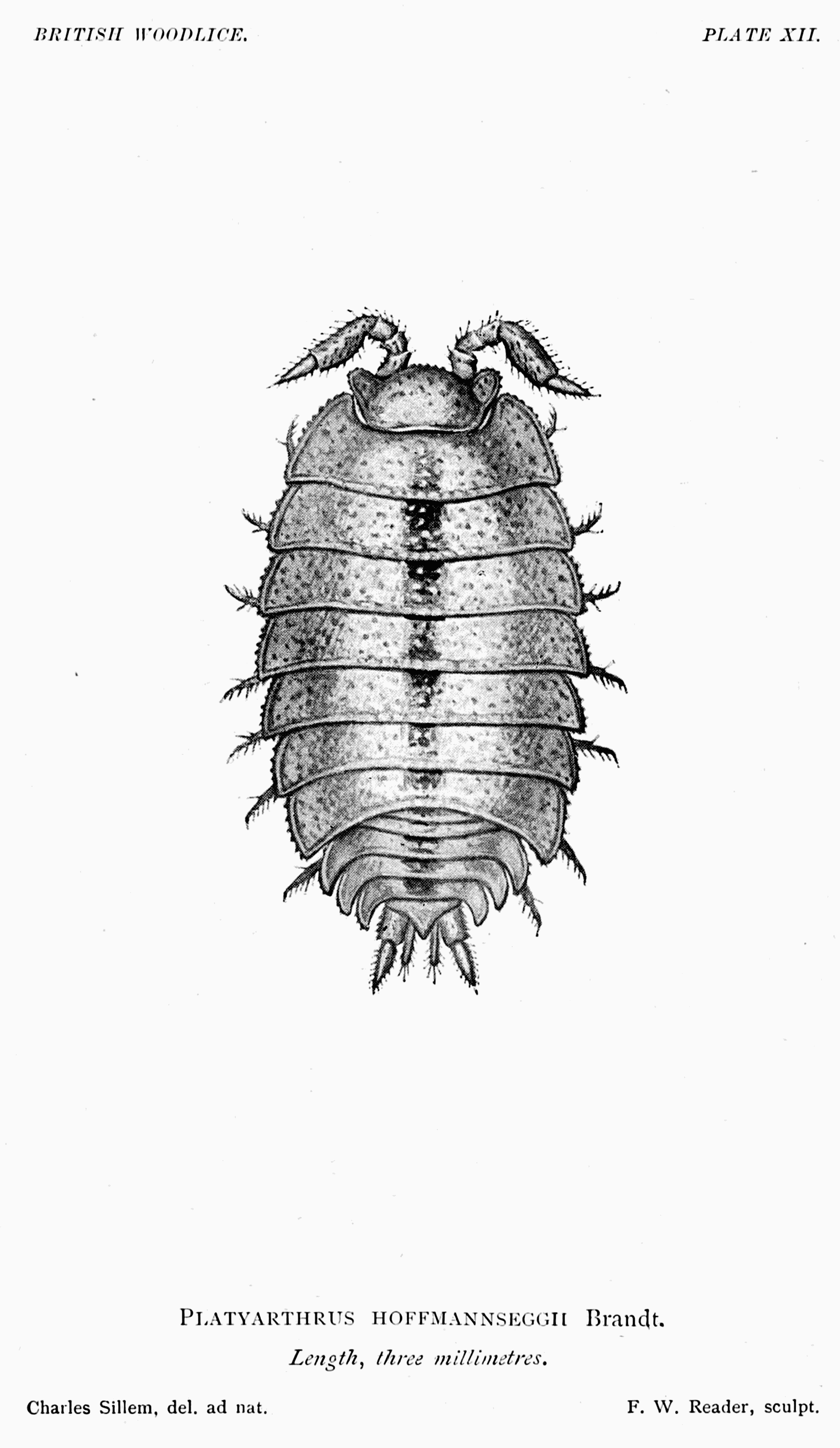 Illustration from the book given under "Source"